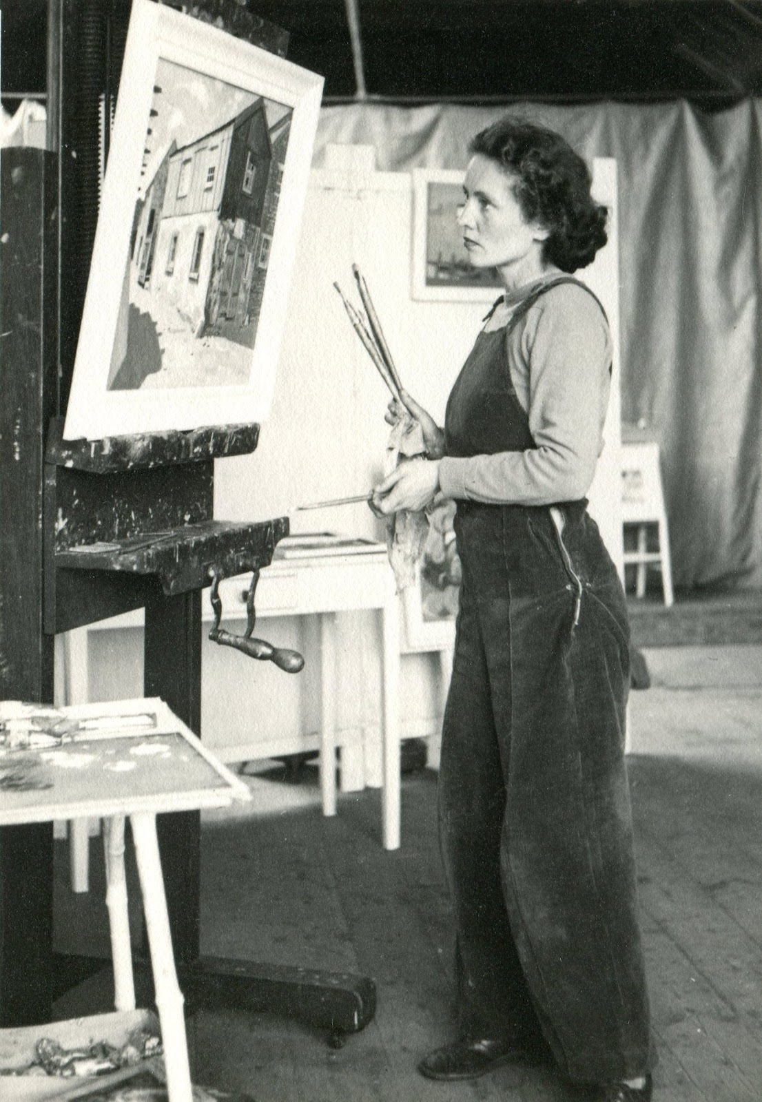 Wilhelmina Barns-Graham, Porthmeor Studios, 1947